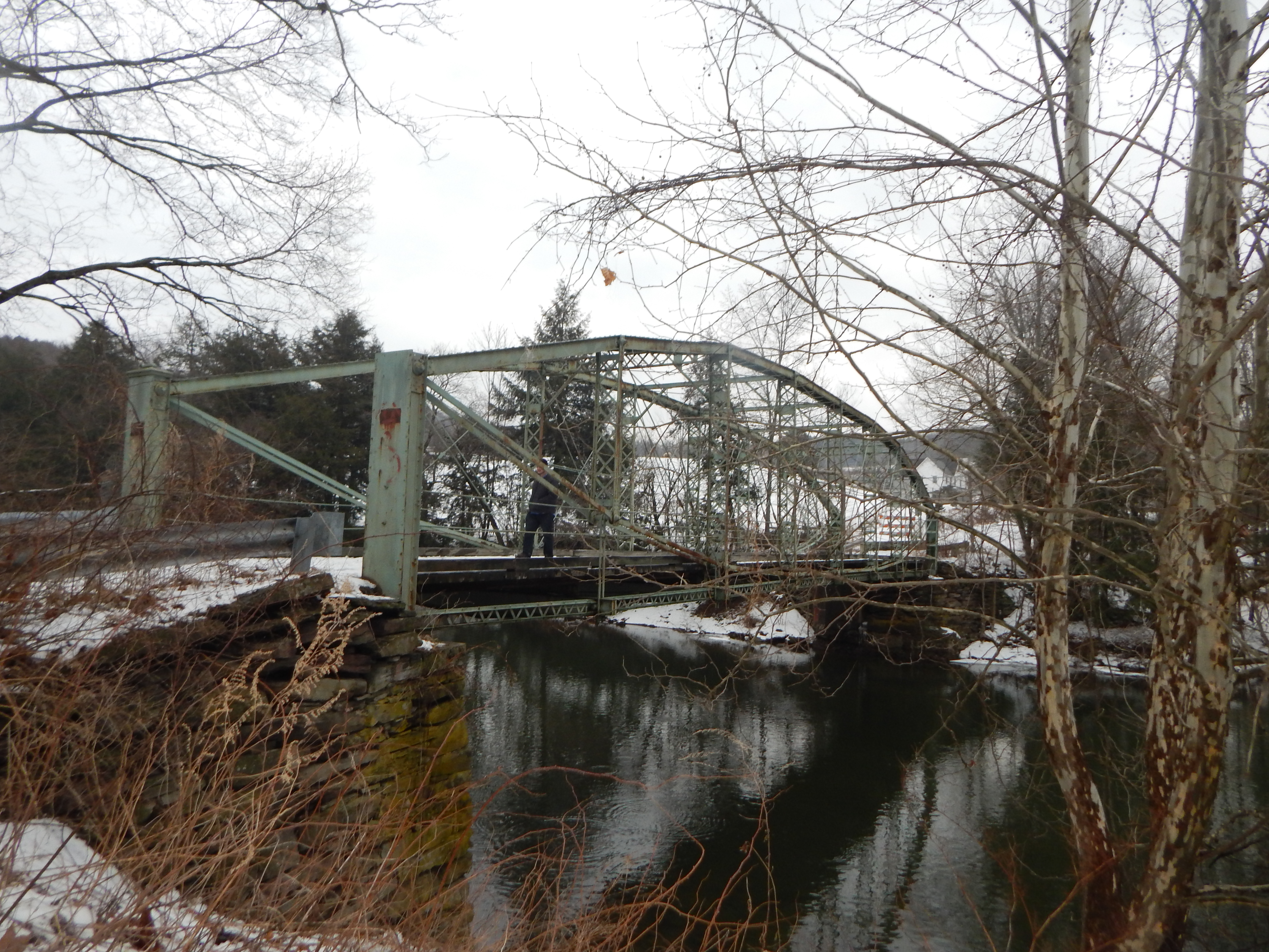 The Pierceville Bridge in Nicholson Township, Pennsylvania in March 2015.